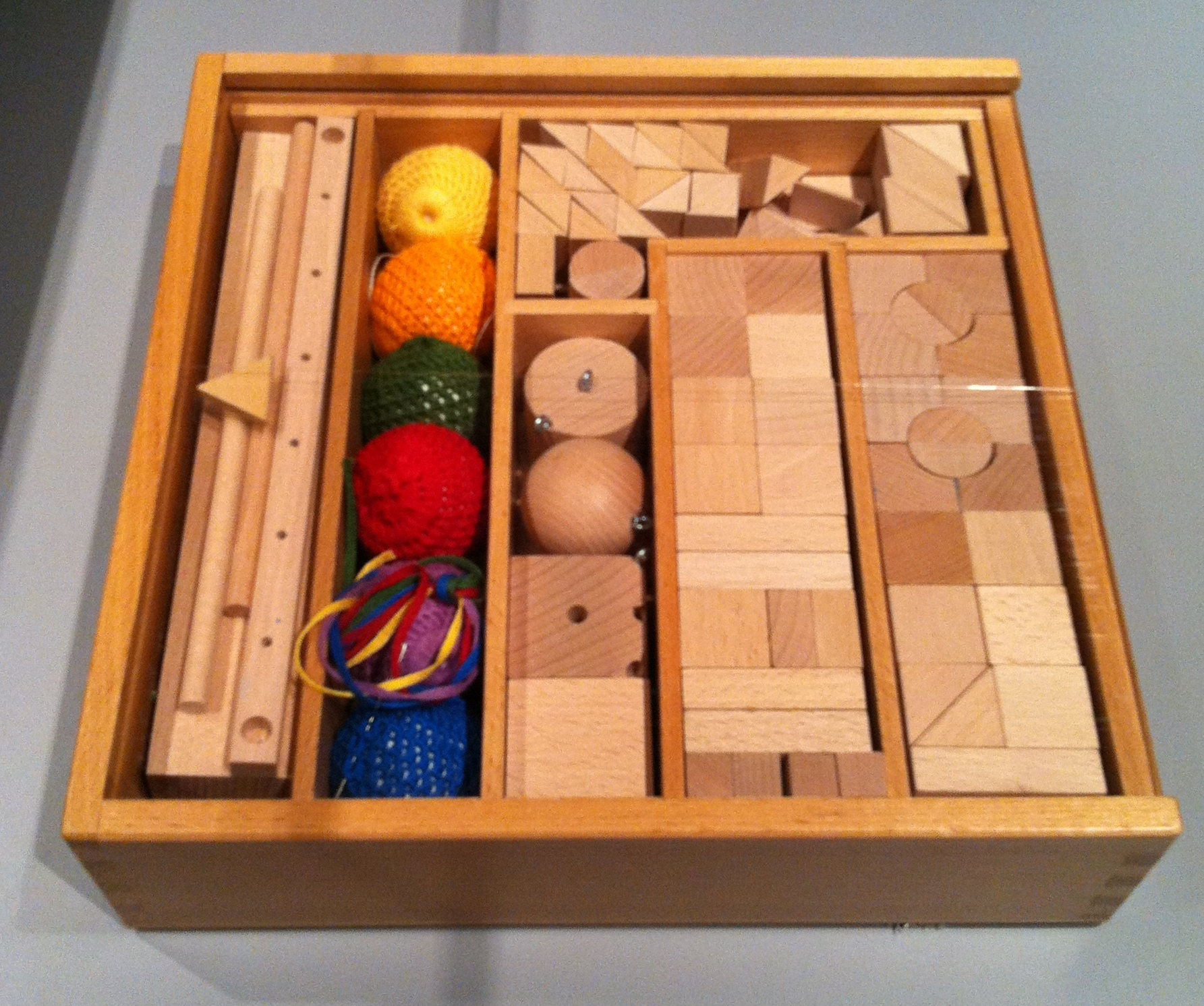 Systems design- The Ulm school. Exhibit at Disseny Hub Barcelona- DHUB Friedrich Fröbel- Construction kit- 1782-1852- SINA Facsimil